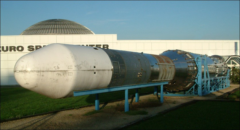 Europa II rocket, on display at Euro Space Center, Transinne, Belgium.